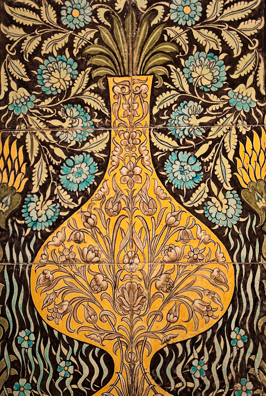 England, London circa 1890 Willame the Morgan, Sand Ends pottery OKS 1975-13 The tile with flower vase is inspired by examples from the Middle East. Willam de Morgan do not copy this, but made his own interpretation.